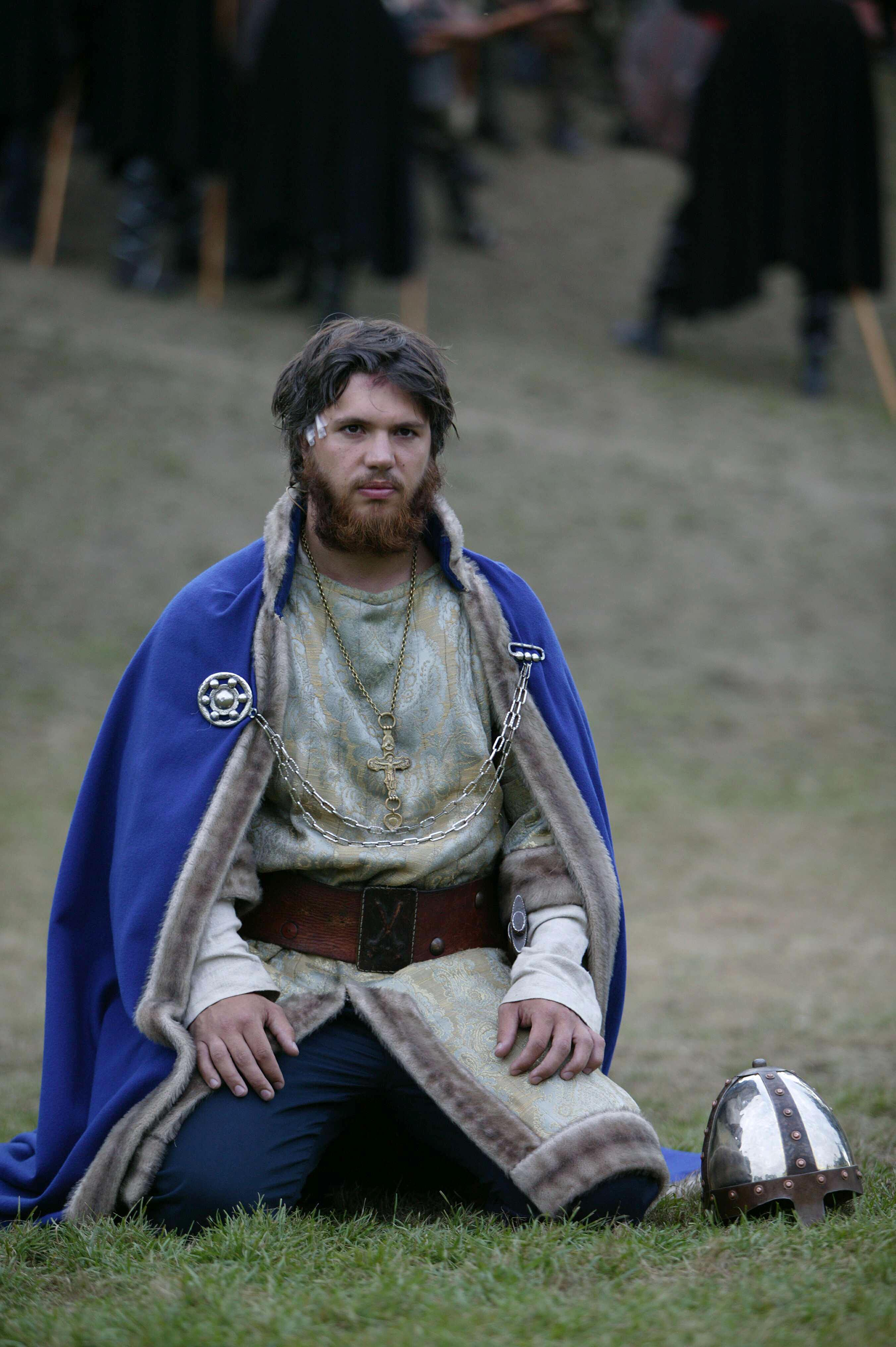 Norwegian actor Nicolai Cleve Broch as king Olaf II of Norway in the The Saint Olav Drama at Stiklestad 2004. Foto: Leif Arne Holme/SNK